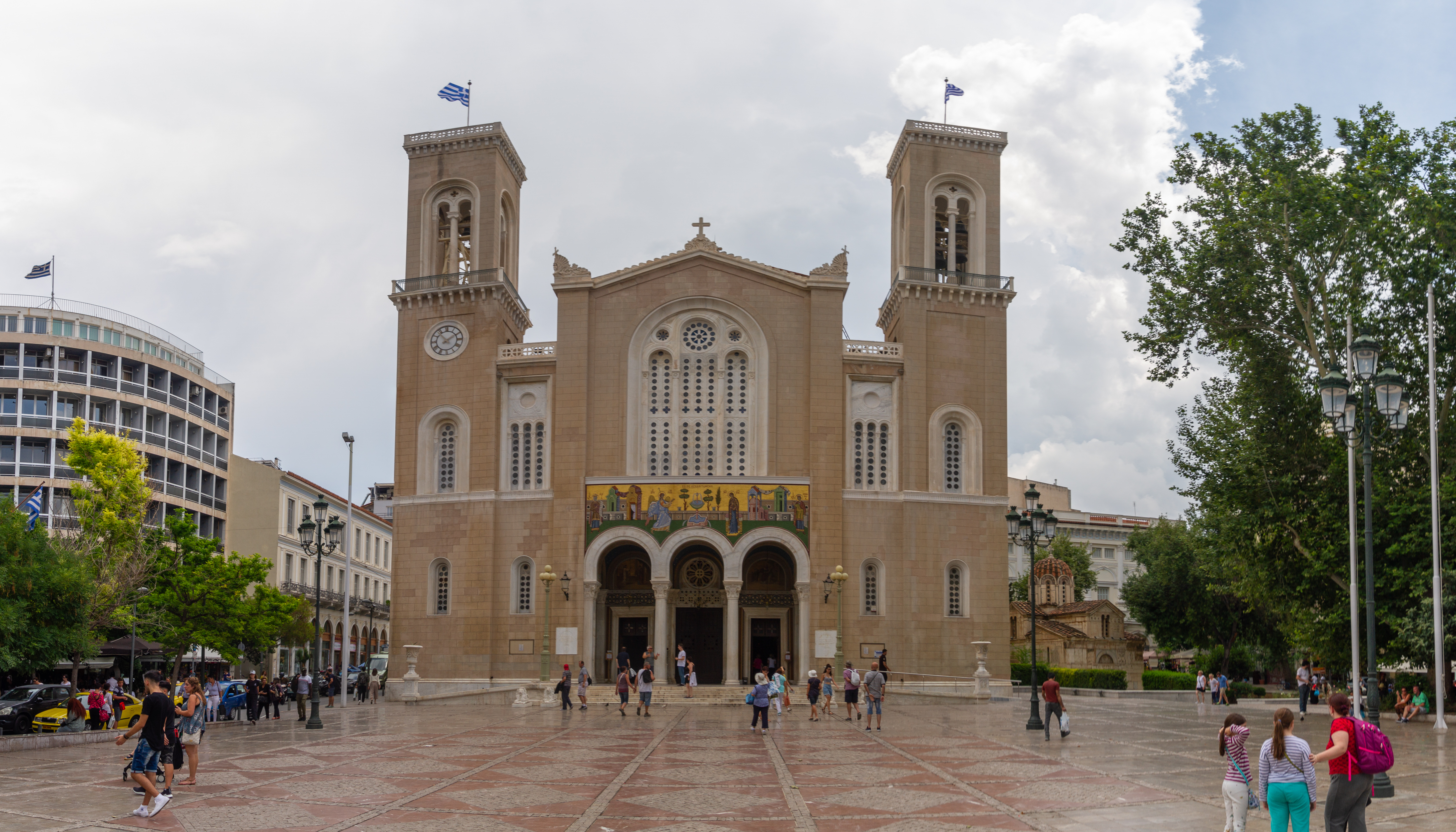 Metropolitan Cathedral of Athens